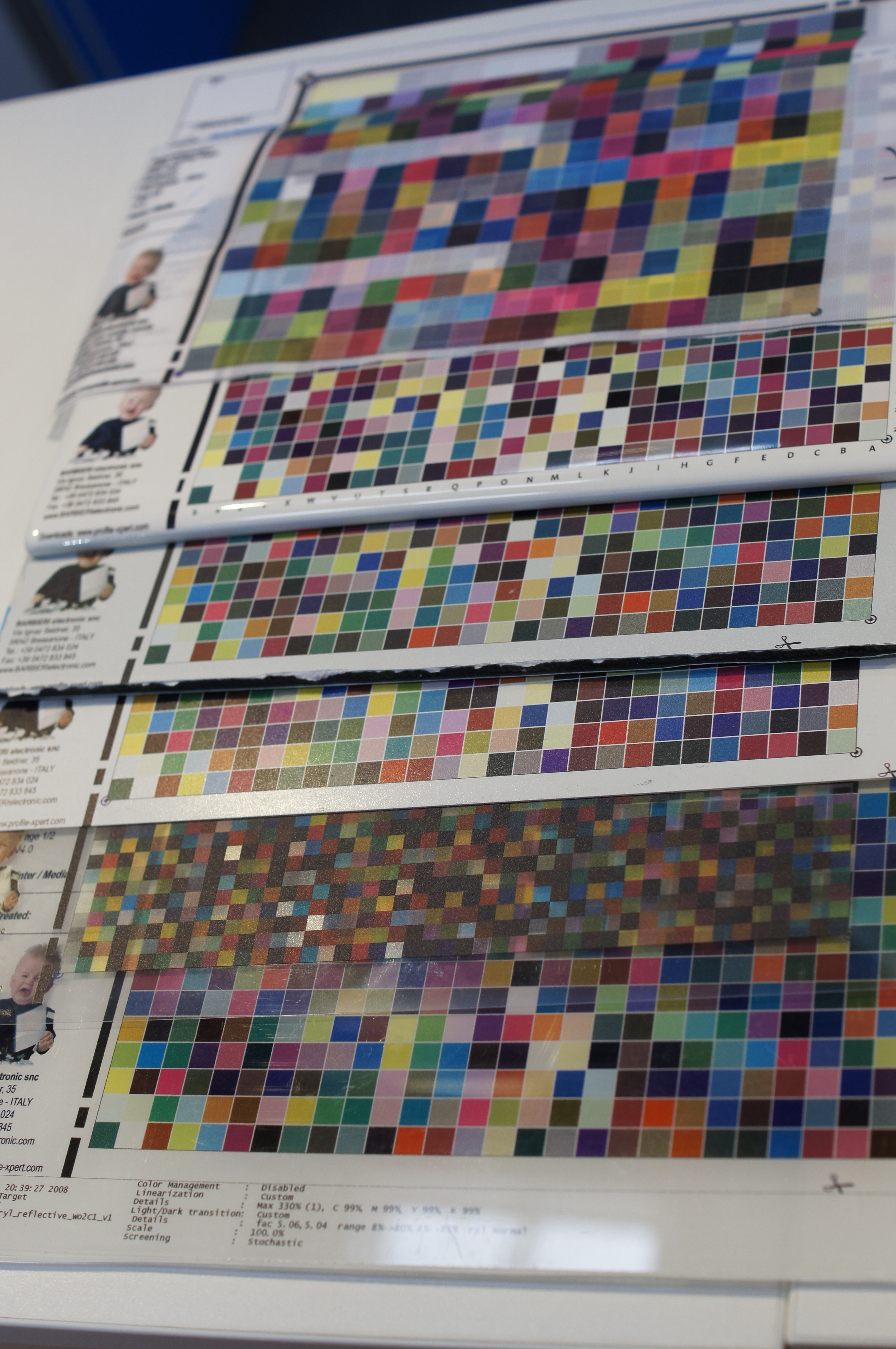 Color management charts for the identical color rendering on inkjet media; top-down: textile, ceramic, paper, glitter film, transparent (printed on the revers) and white PVC film